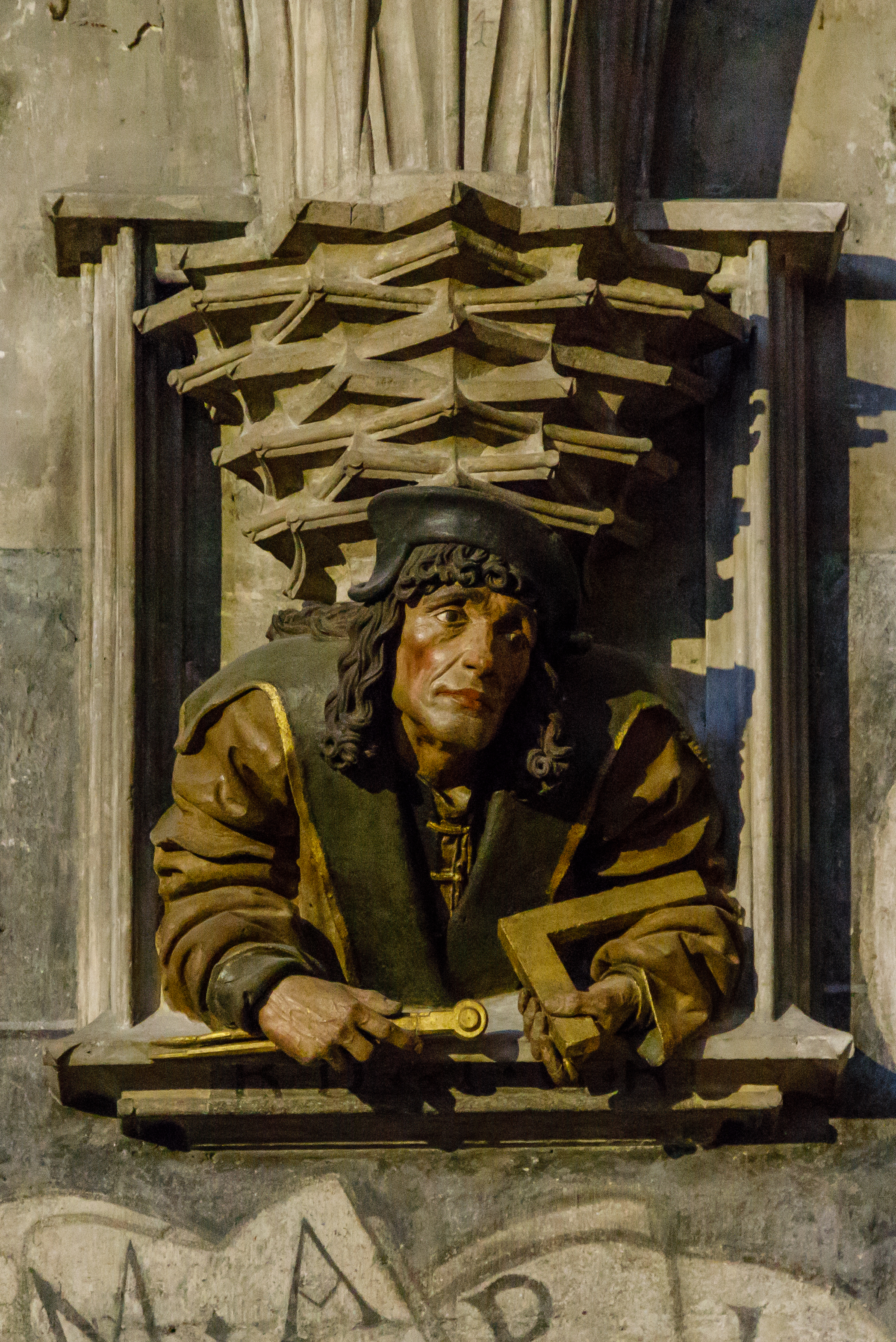 Vienna, Austria: Relief of Meister Pilgram in Stephansdom